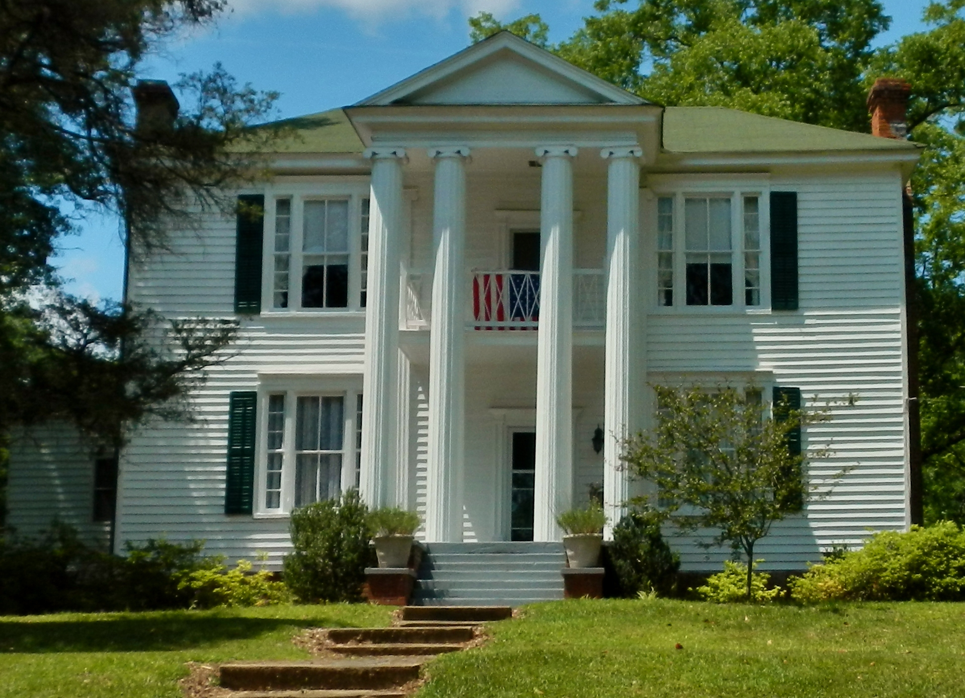 This is a photo of the George W. B. Towns House in Talbotton, GA. It was listed on the NRHP on May 7, 1973.